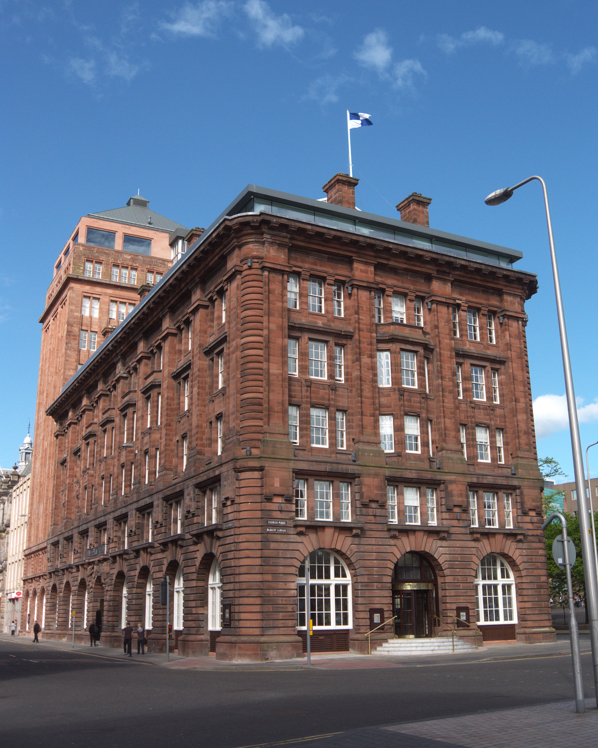 Refurbished DC Thomson building, May 2017, shortly after reopening.